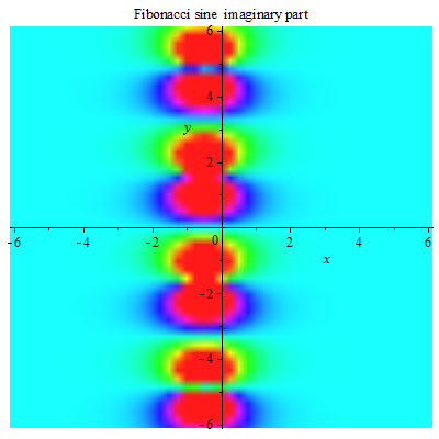 Fibonacci hyperbolic tangent imaginary part density plot